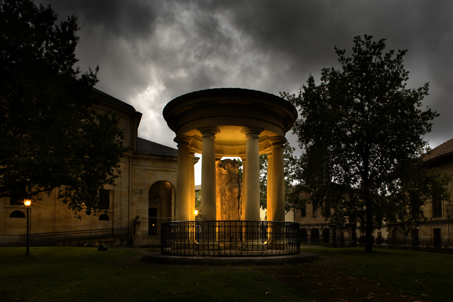 The oak tree of Gernika